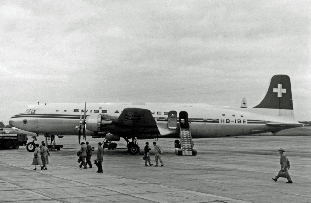 Douglas DC-6B HB-IBE of Swissair at Manchester Airpoprt in 1954